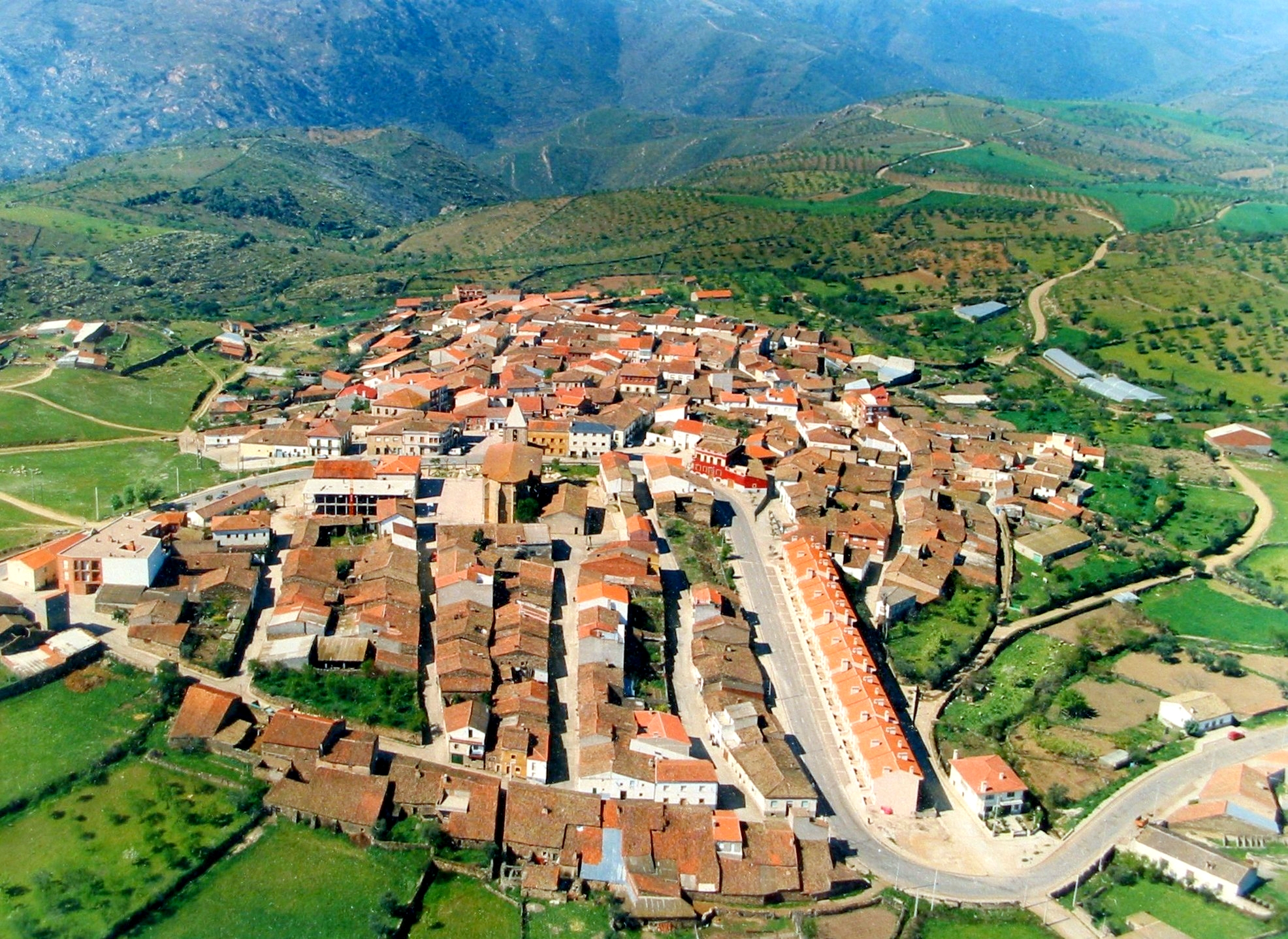 Aerial photograph of La Fregeneda (Province of Salamanca, Castile and León, Spain).